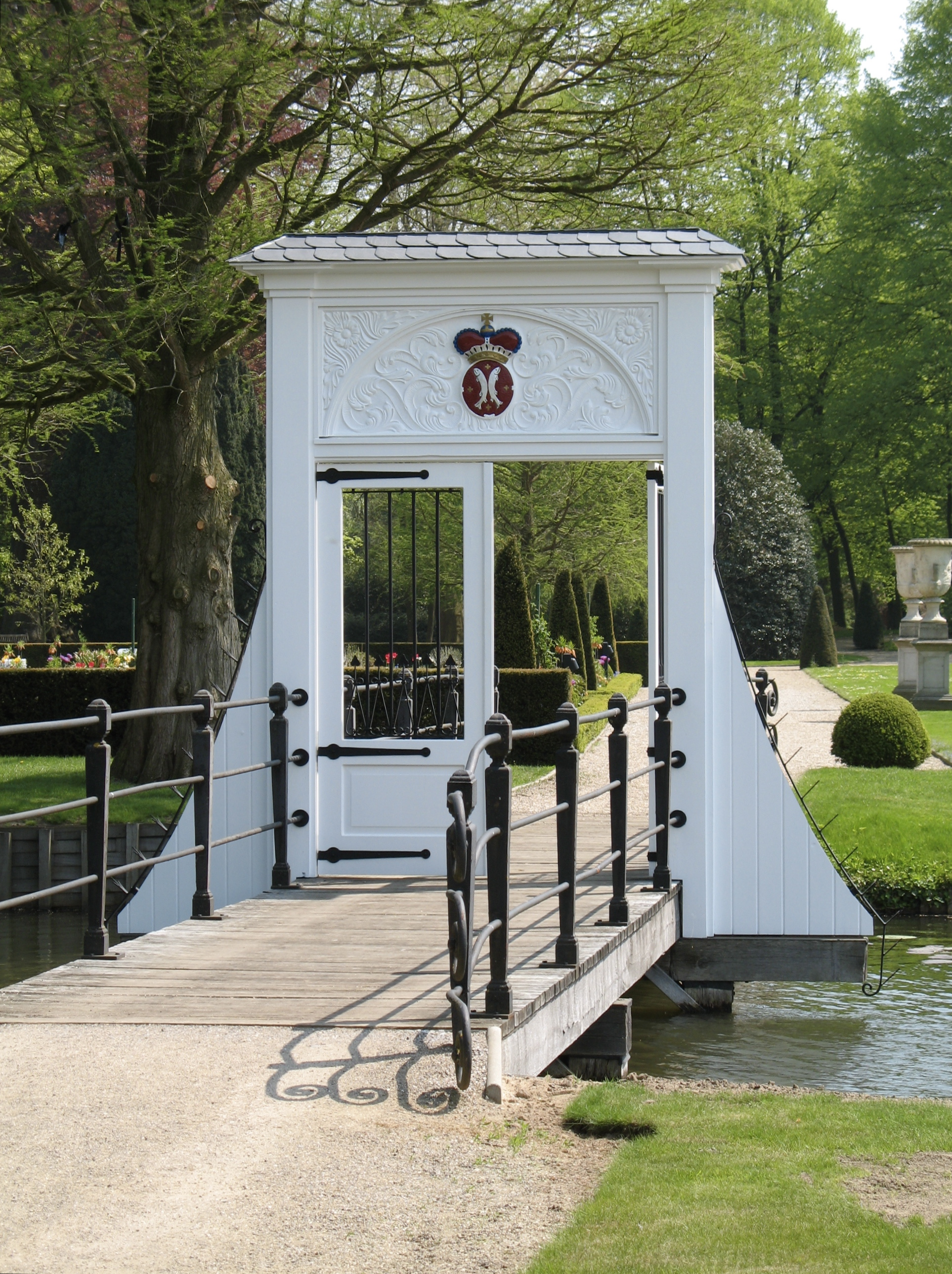 Park of Anholt Castle, Isselburg (North Rhine-Westphalia, Germany)